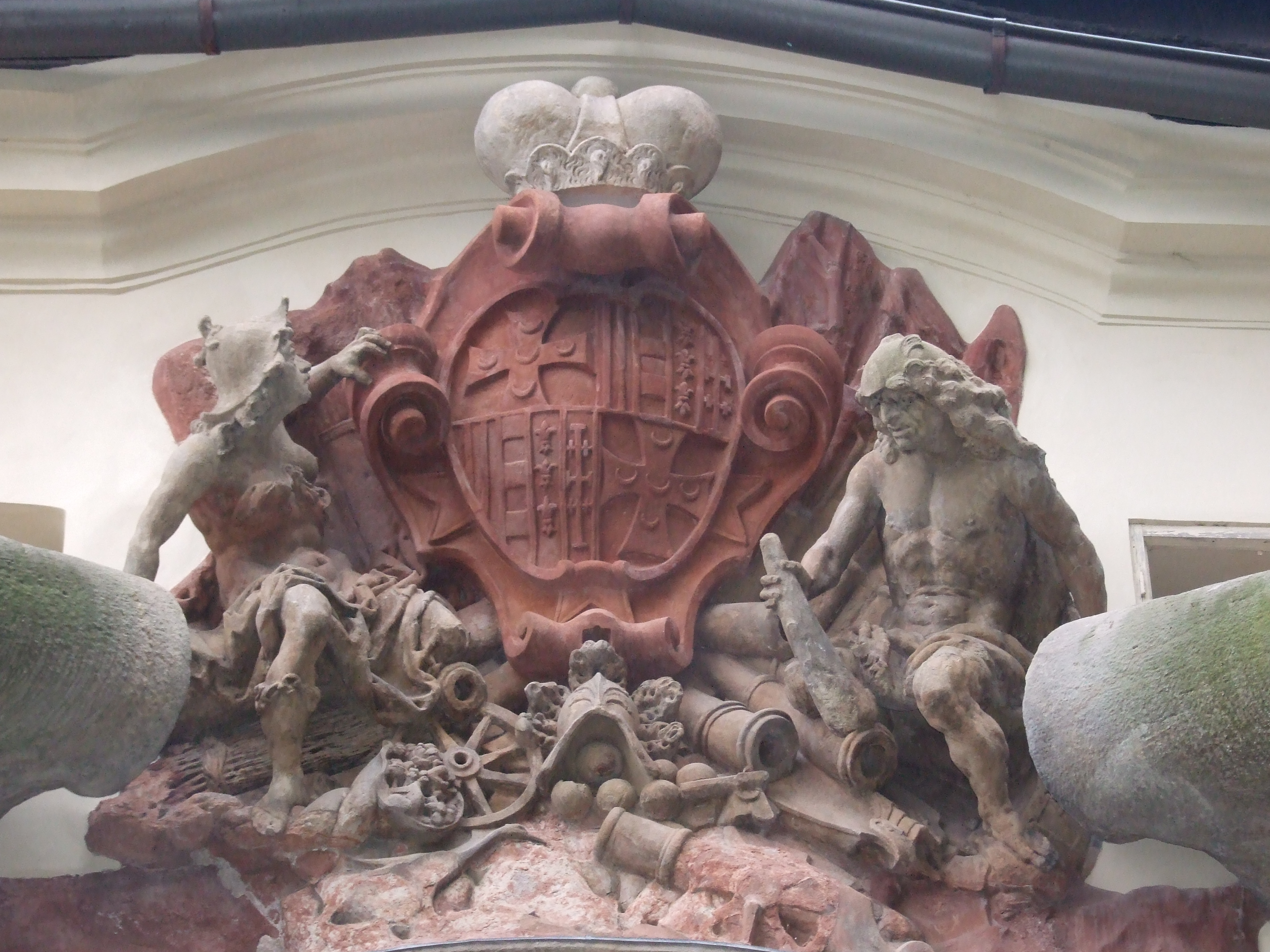 Castle of Náchod